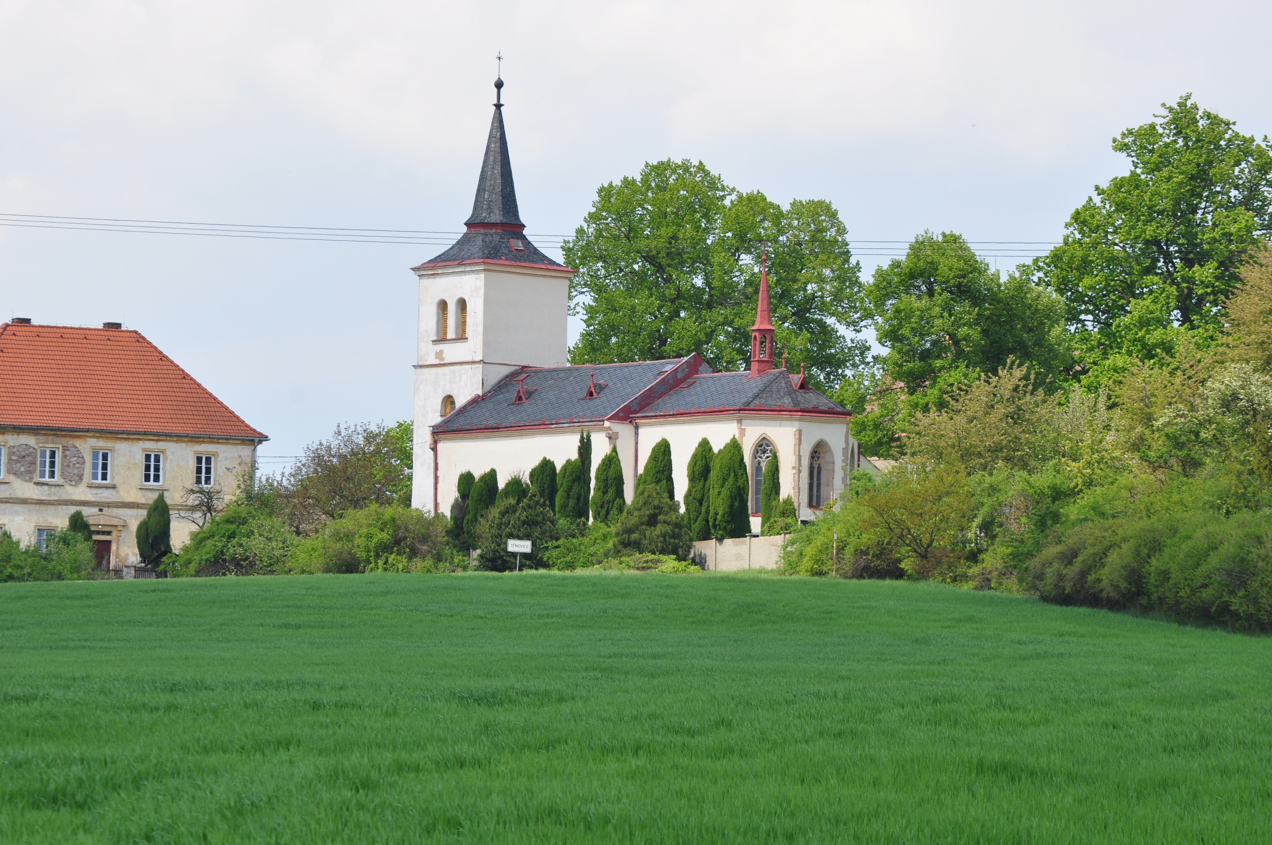 Assumption of Mary Church